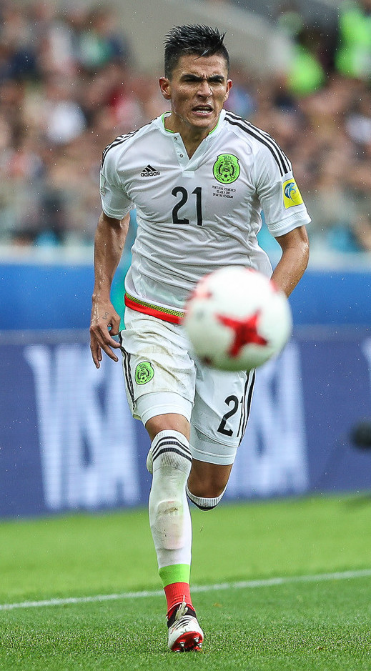 Portugal - Mexico, 2 Jul 2017